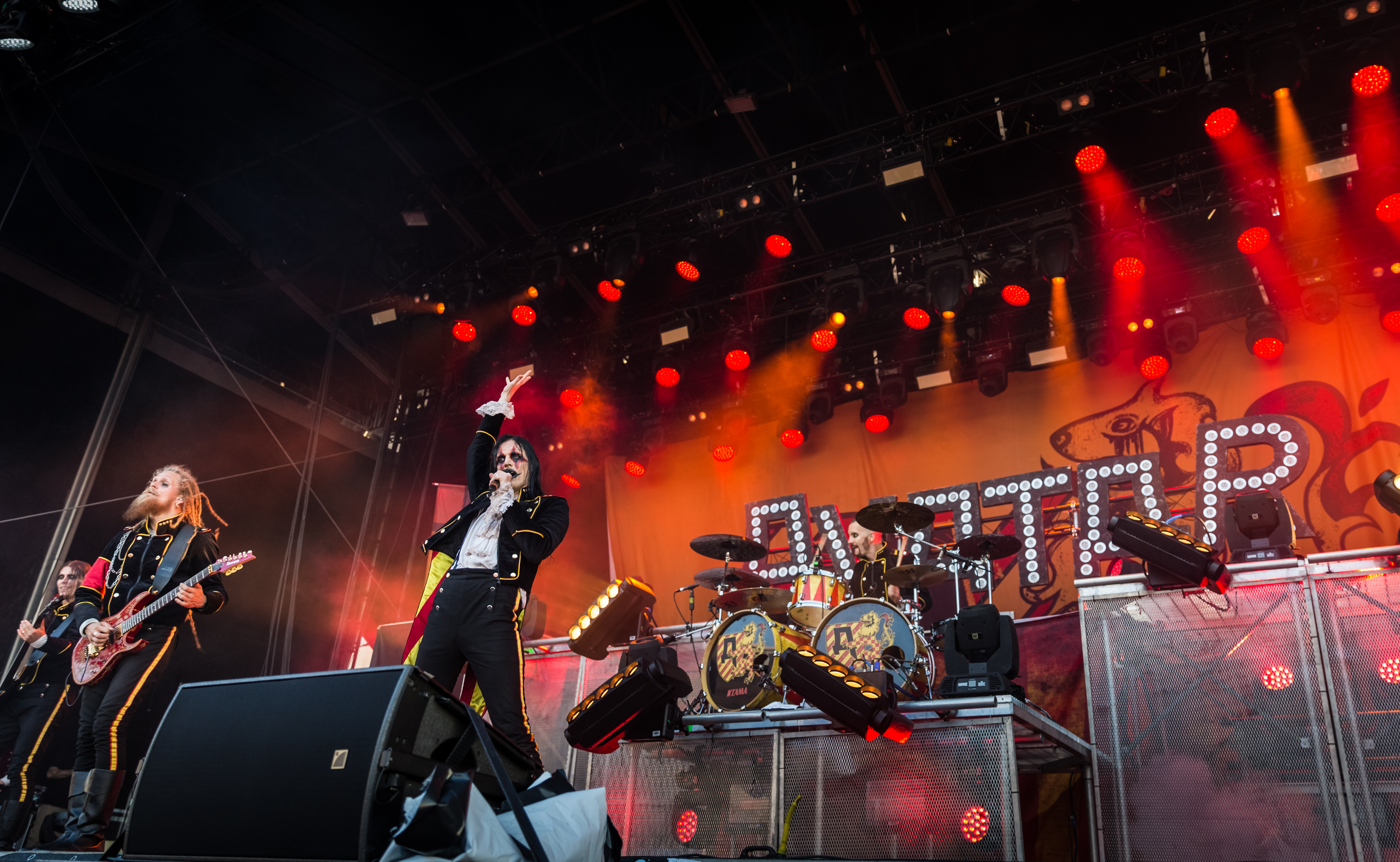 Avatar - Rock am Ring 2018